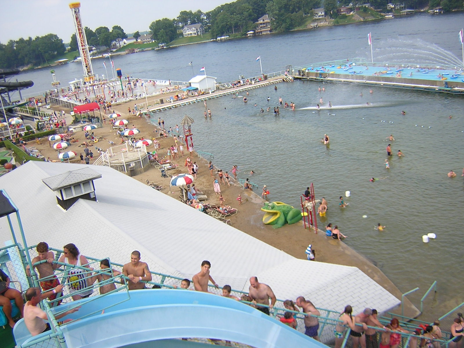 A scene from Indiana Beach, an amusement park located in Monticello, Indiana on Lake Shafer, a manmade lake on the Tippecanoe River. Slide and waterpark, from sky ride.